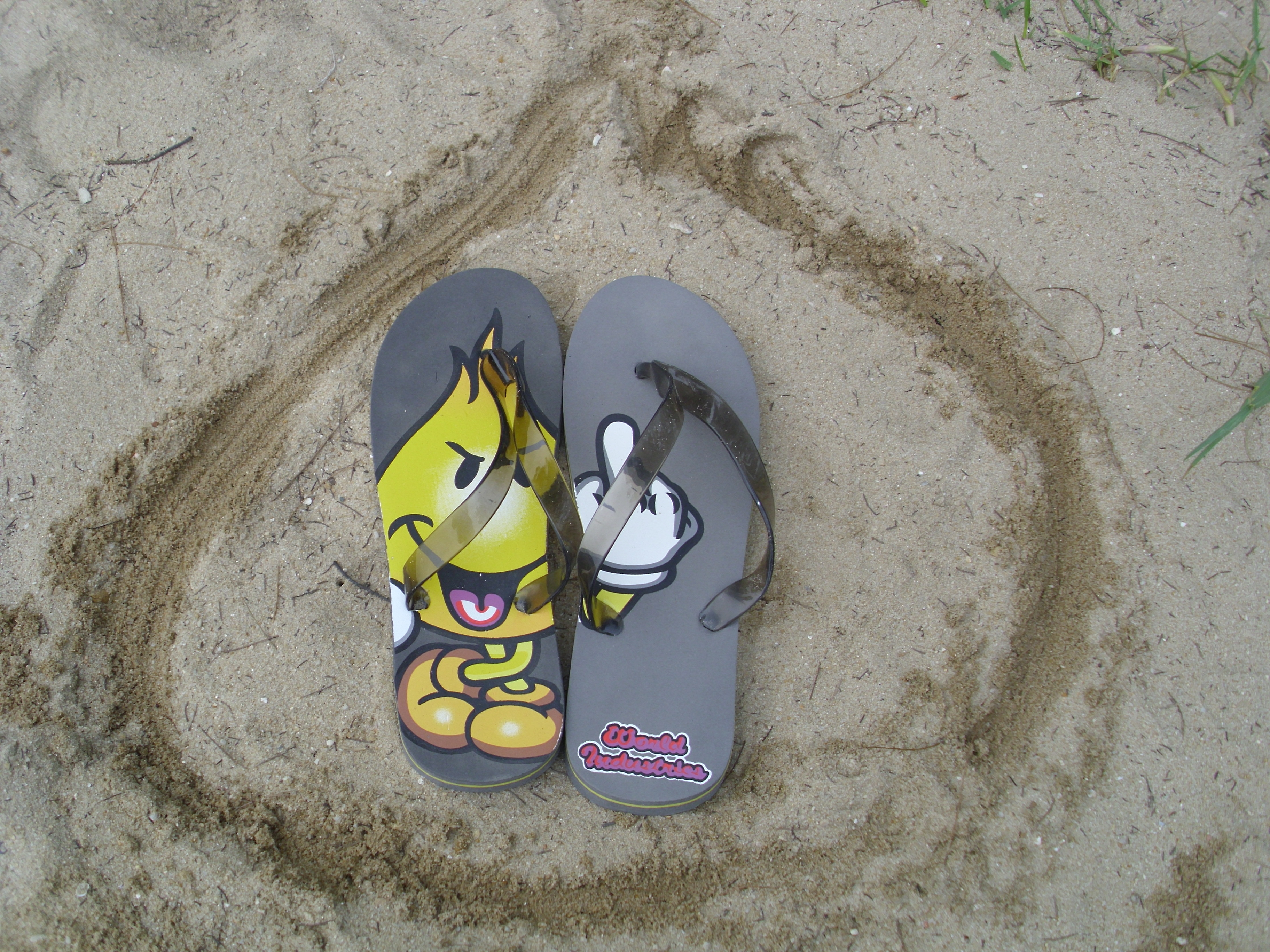 World Industries's Flame boy flipflops with flame line in beach